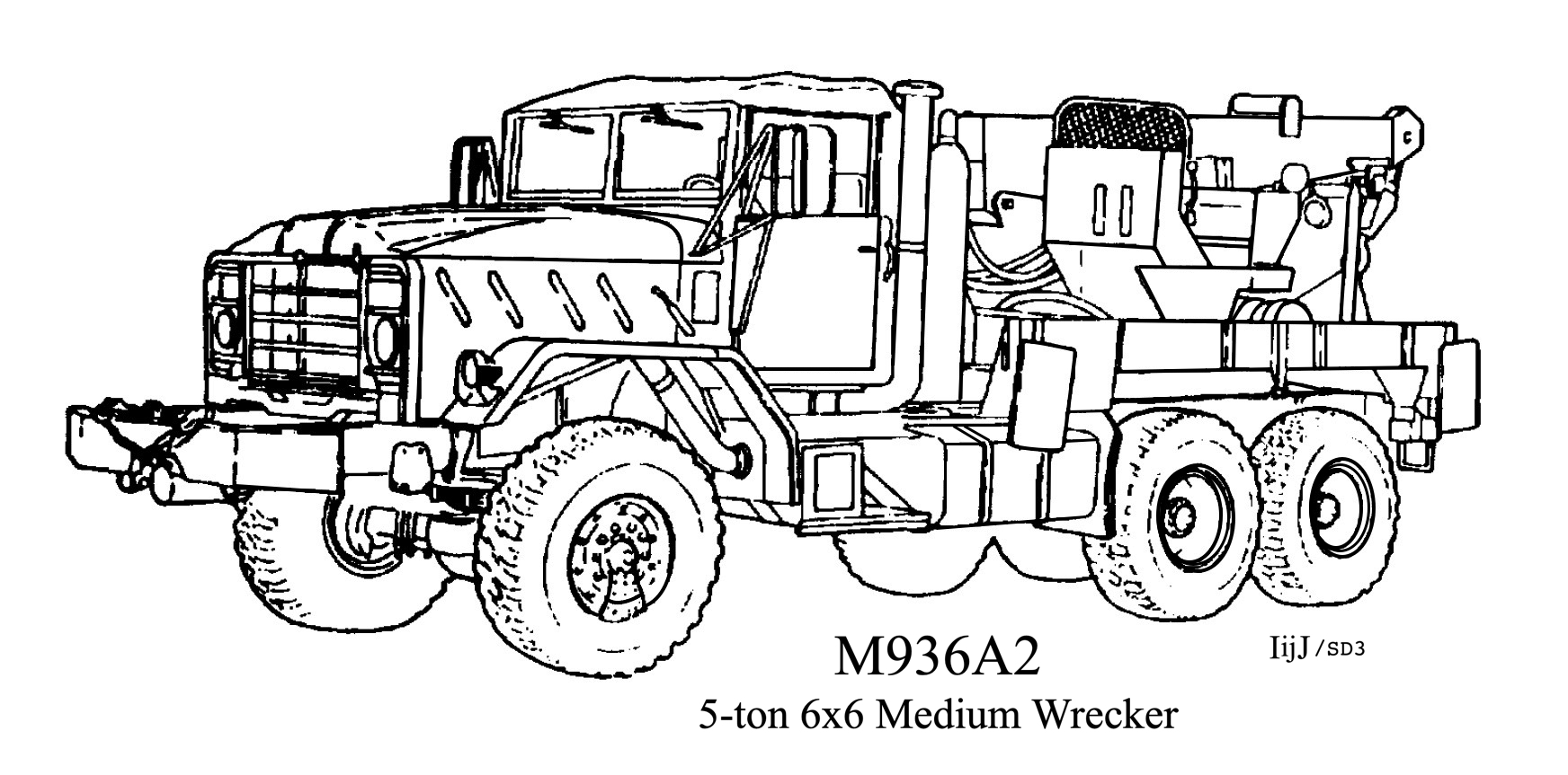 M936A2 "Truck, Medium Wrecker, 5-ton, 6x6, Dropside" drawing from an US Army Technical Manual, labeled and cropped for size